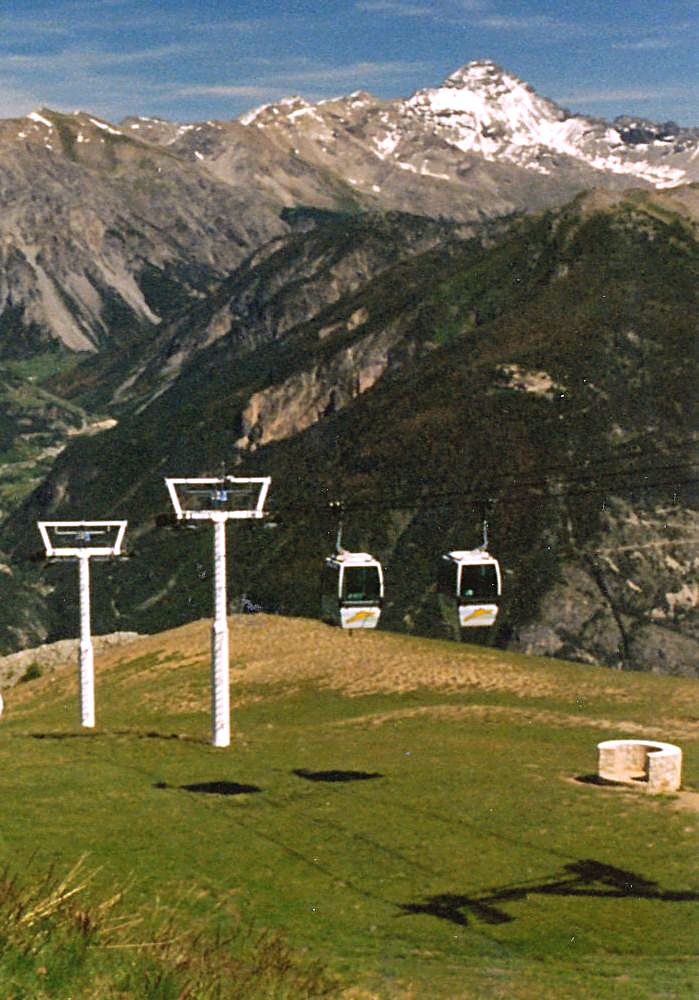 The 'Prorel Cable Car' near Briancon, France. July 1996.